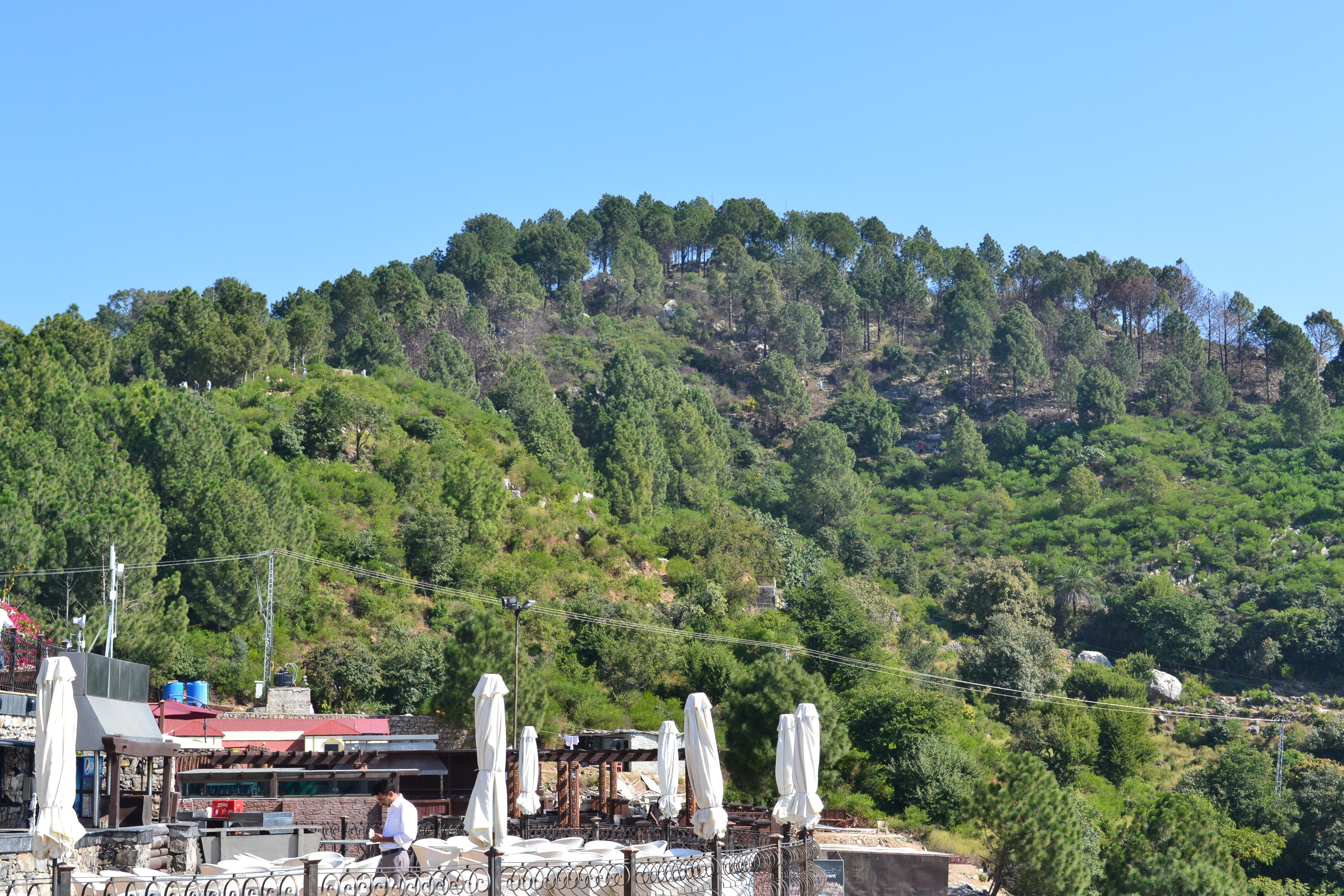 Tilla Grani is a 1181 meter / 3874 feet high peak in Margalla Range. It is beside Pir Sohawa.